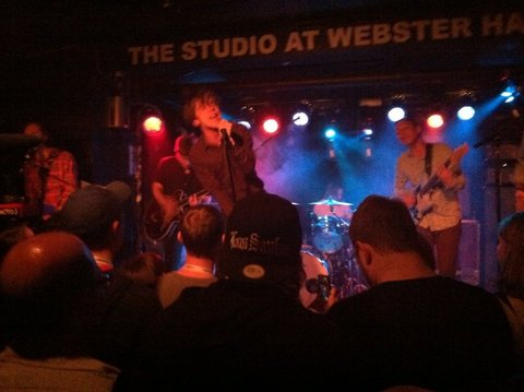 My own creation, Cage playing at Webster Hall 10.9.13